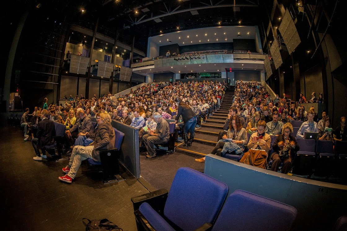 Typo San Francisco 2014, photo by Amber Gregory